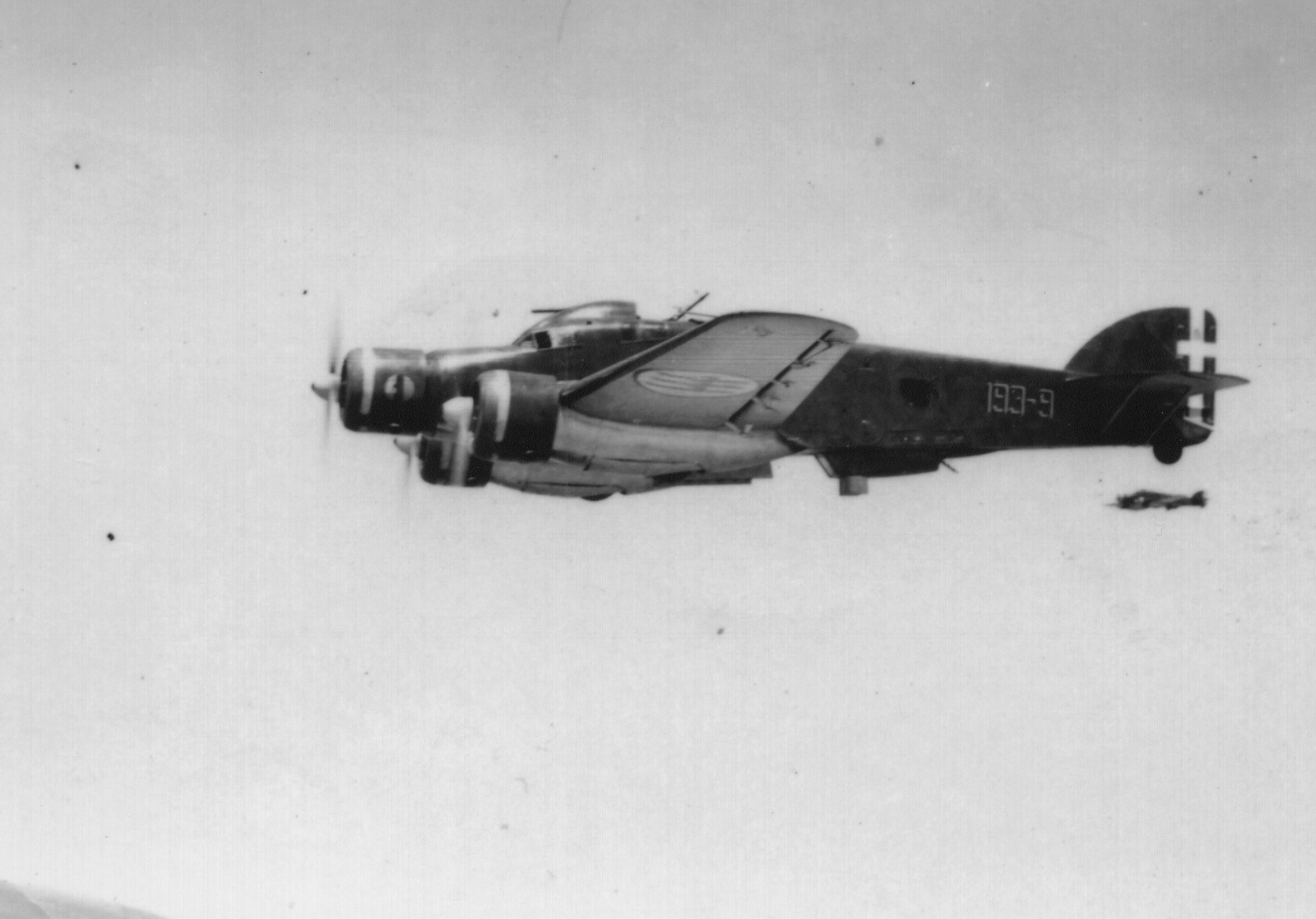 A Savoia-Marchetti S.M.79 of the 193ª Squadriglia Bombardamento Terrestre (193th Land Bombing Squadrilla), 87º Gruppo (87th Group), 30º Stormo (87th Wing). From the private archive of Riggio family.